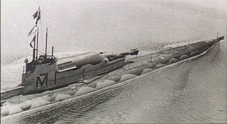 AWM caption : "Aerial view of the Royal Navy M Class submarine M1 heading out to sea showing the 12 inch gun mounted forward of the conning tower. Note the distinctive camouflage scheme."